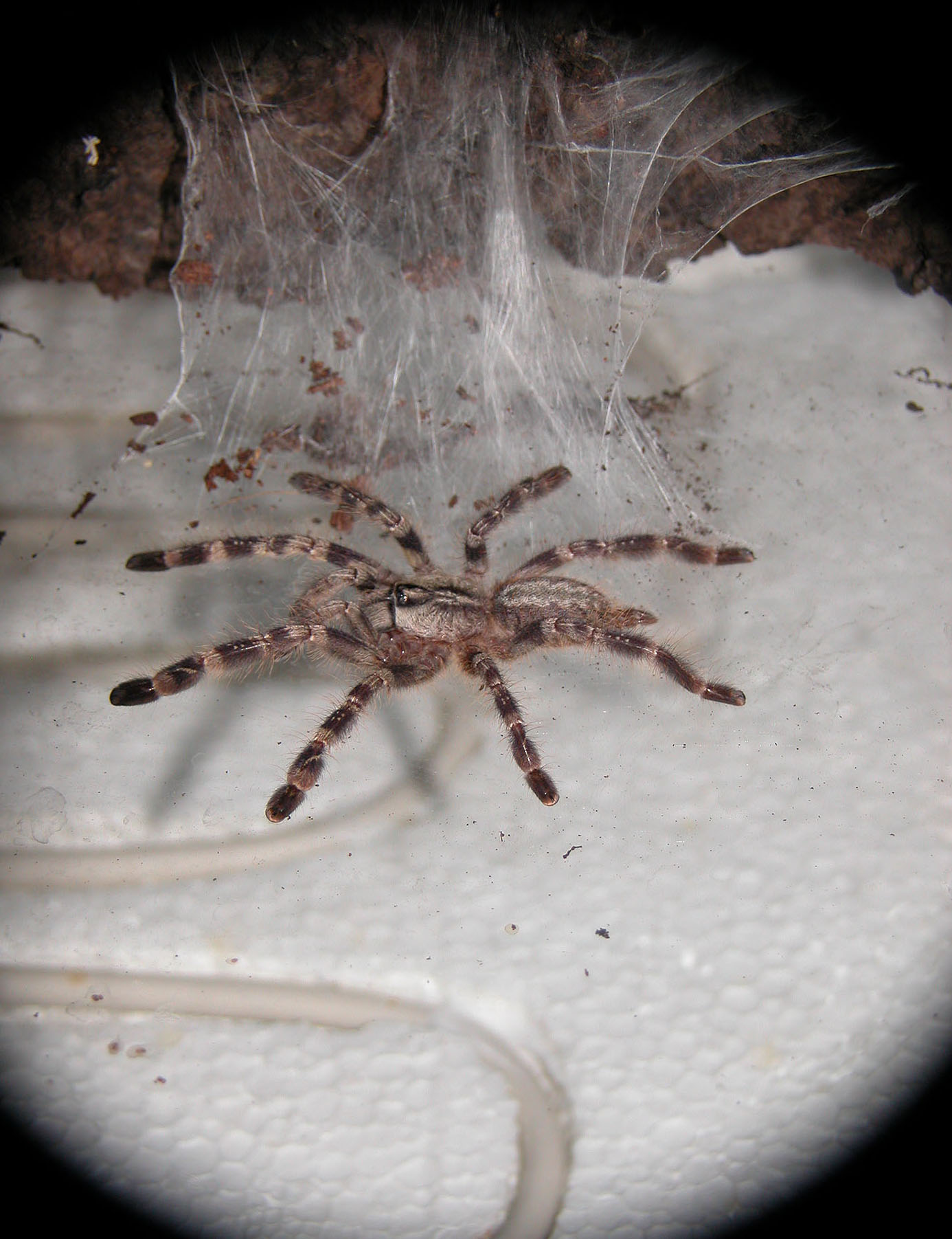 Poecilotheria regalis